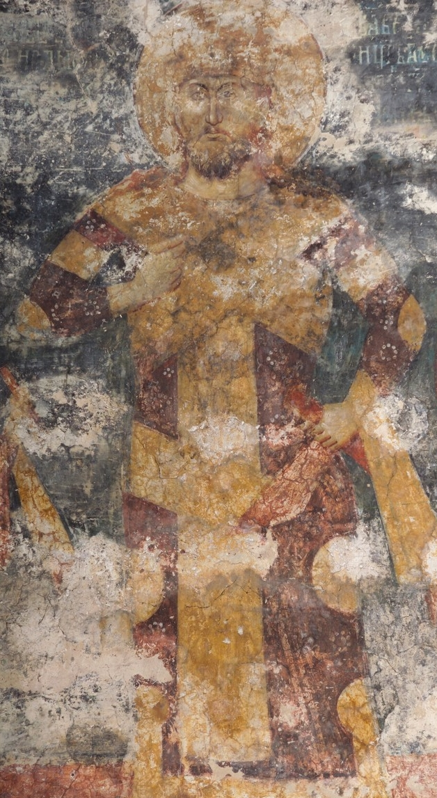 Dušan the Mighty, fresco from Visoki Dečani,Serbia.